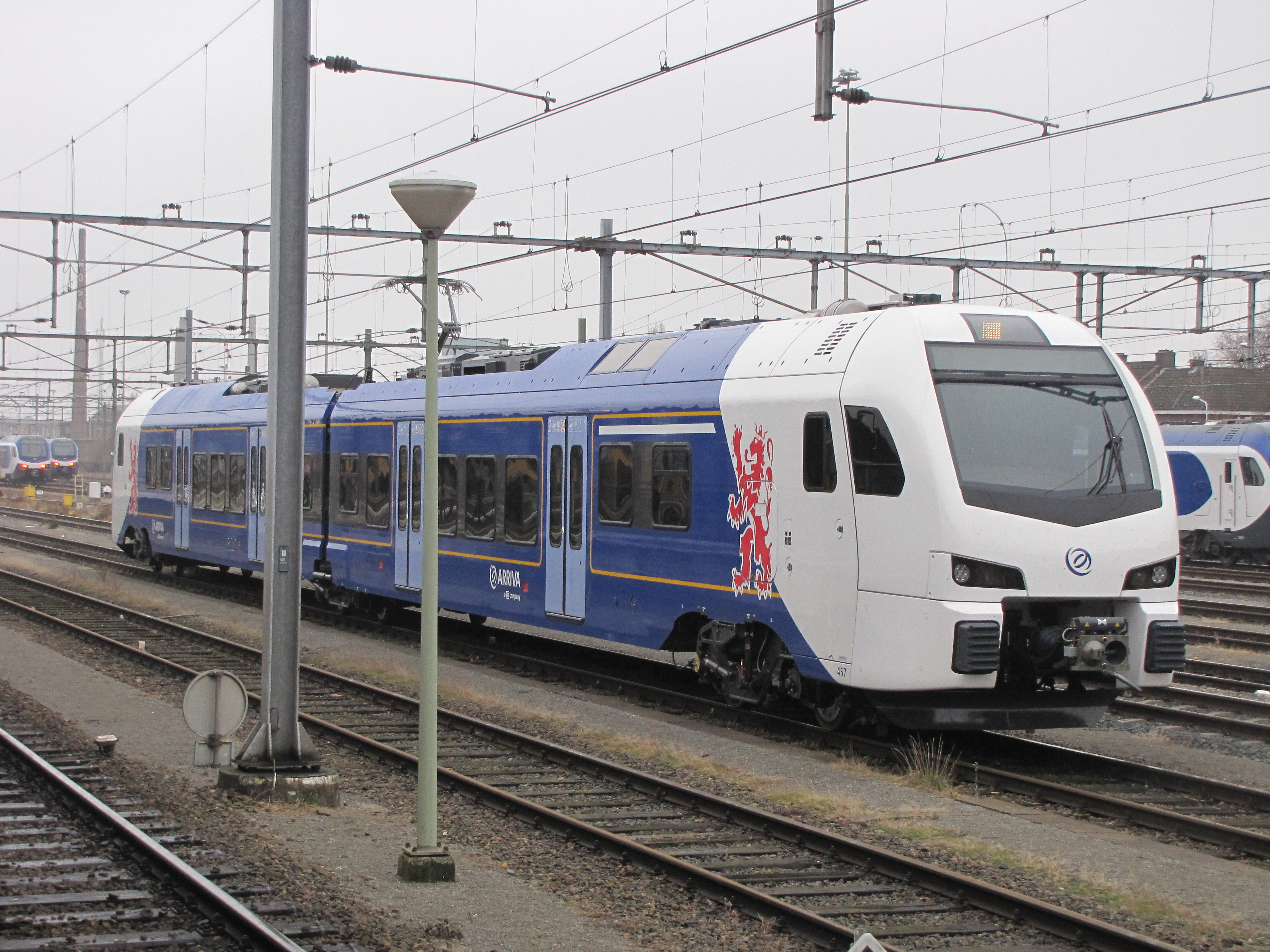 Arriva Train, Type: Flirt. Maastricht station, the Netherlands.